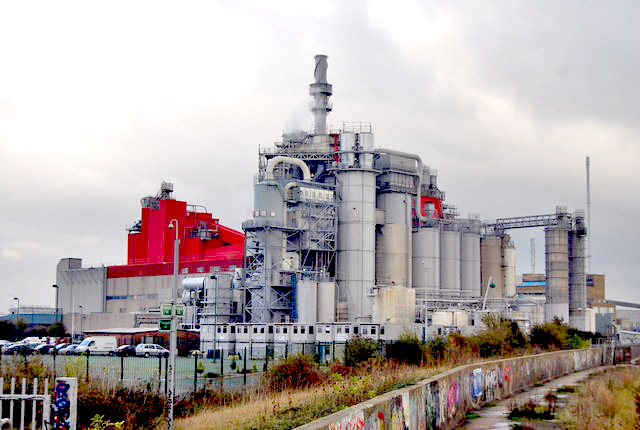 Procter & Gambles Soap making Works, Thurrock